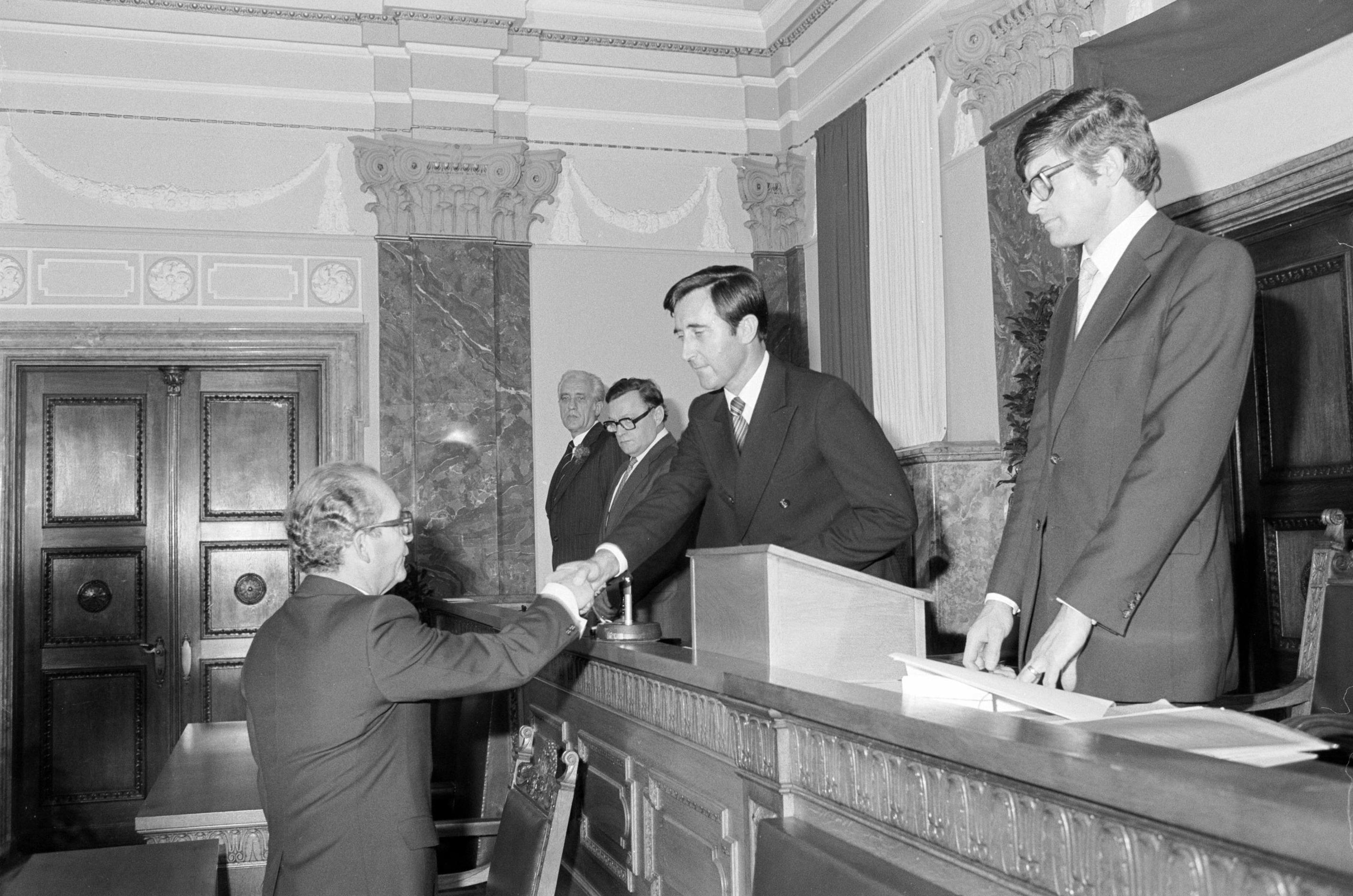 Inauguration of Vorarlbergs state governor Herbert Keßler led by the president of the Vorarlberg state parliament, Martin Purtscher on the November 6th 1979. To the right of president Purtscher stands the 1st vice-president Friedrich Heinzle, next is the 2nd vice-president Karl Falschlunger. On the right side of the president stands the Landtagsdirektor (Director of the Vorarlberg state parliament, a non-elected official), Reinhold Schwarz.